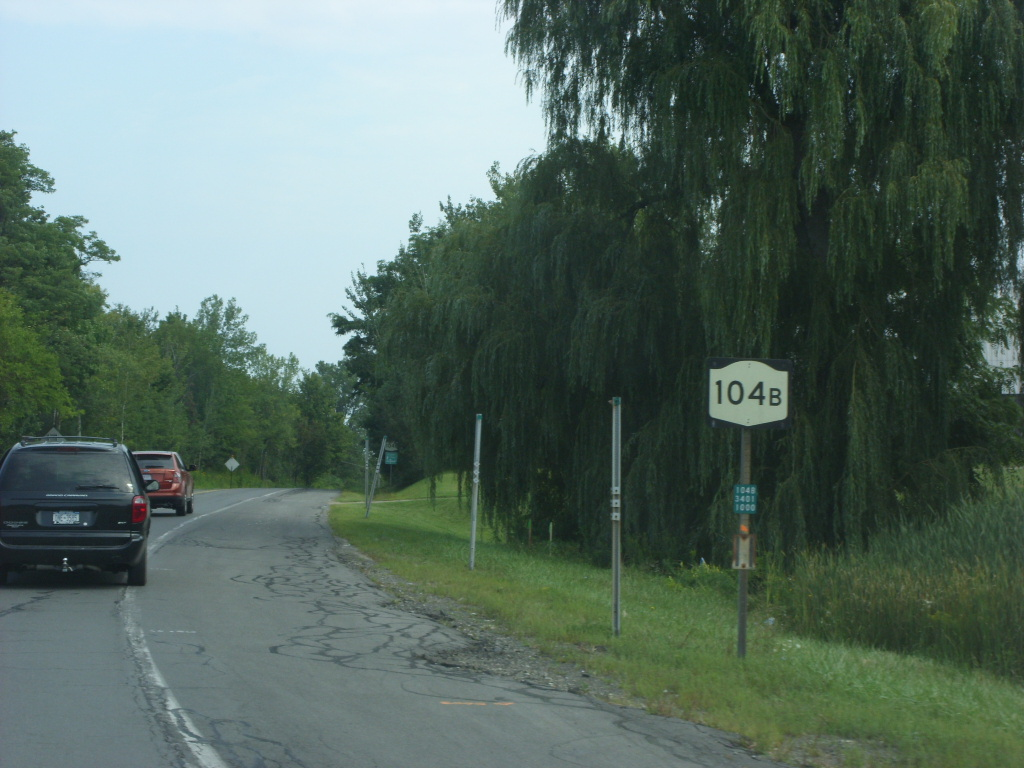 A rotting reassurance shield along New York State Route 104B.